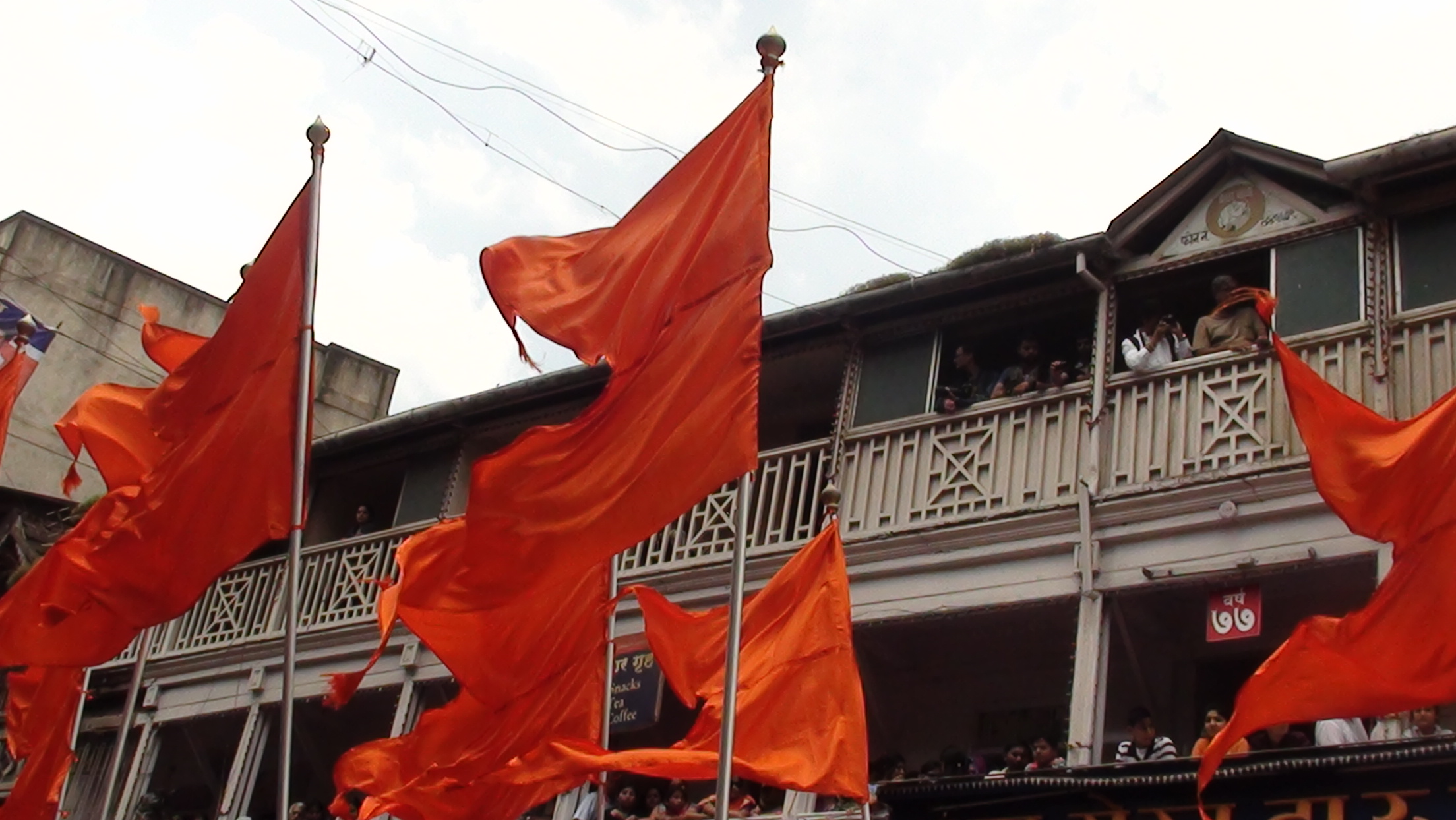 Our religious color is Bhagwa because it represents knowledge.